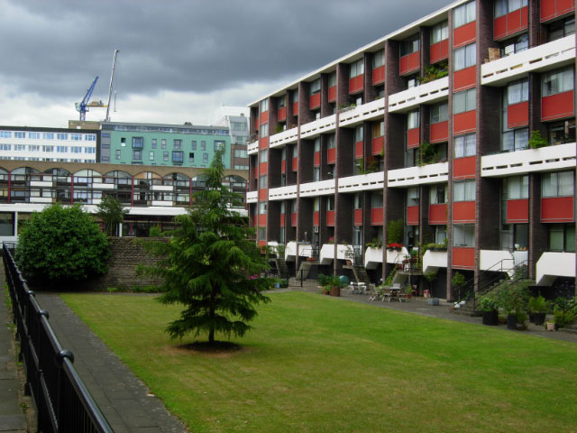 Golden Lane Estate The sunken garden, surrounded by blocks, forms a centrepiece of this 1950s well-maintained estate. The dark clouds overhead threaten rain.